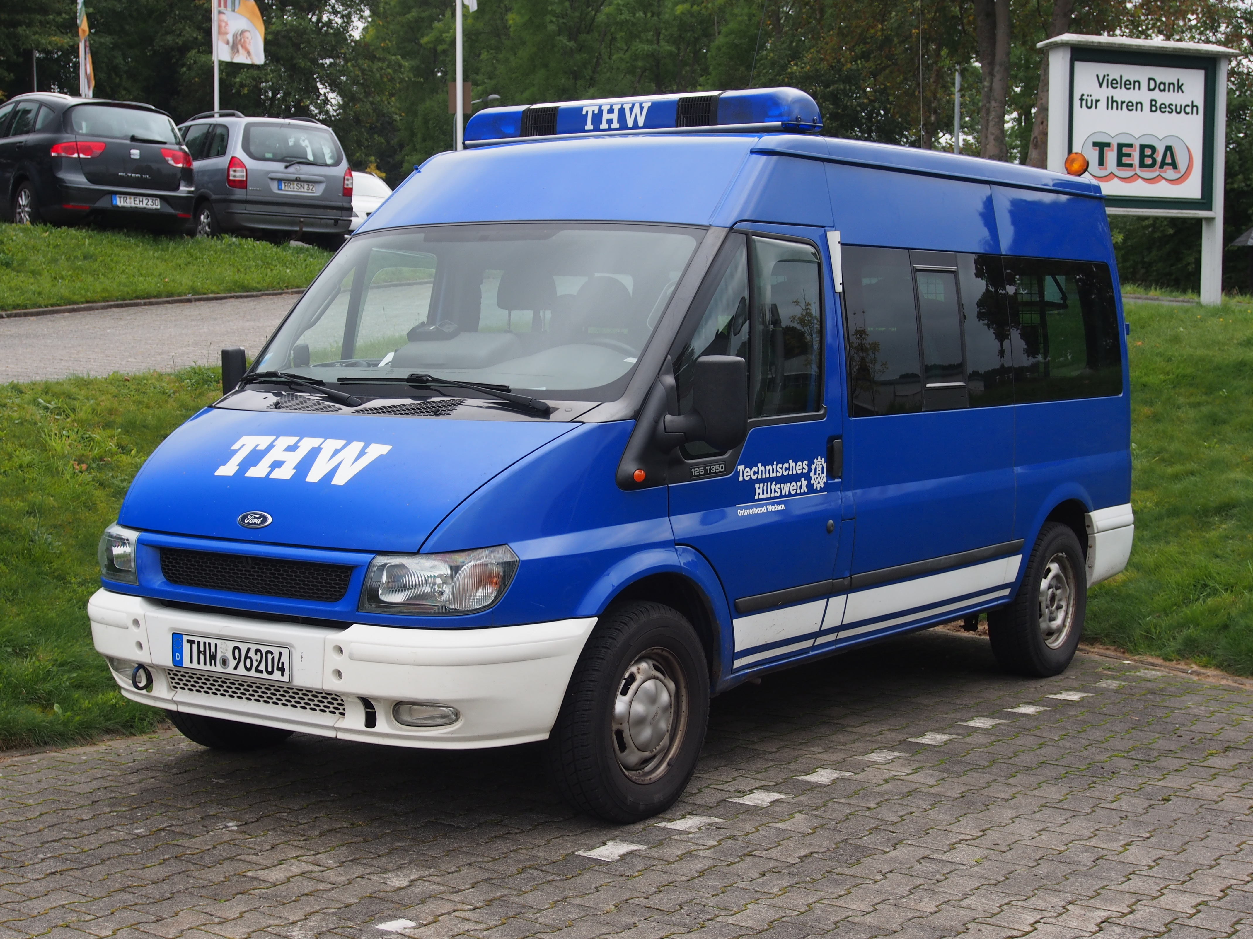 Photographed near Hermeskeil, Germany.